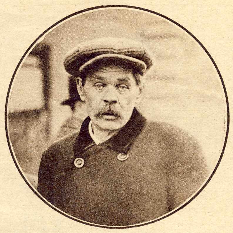 The 60 years old Maxim Gorky.